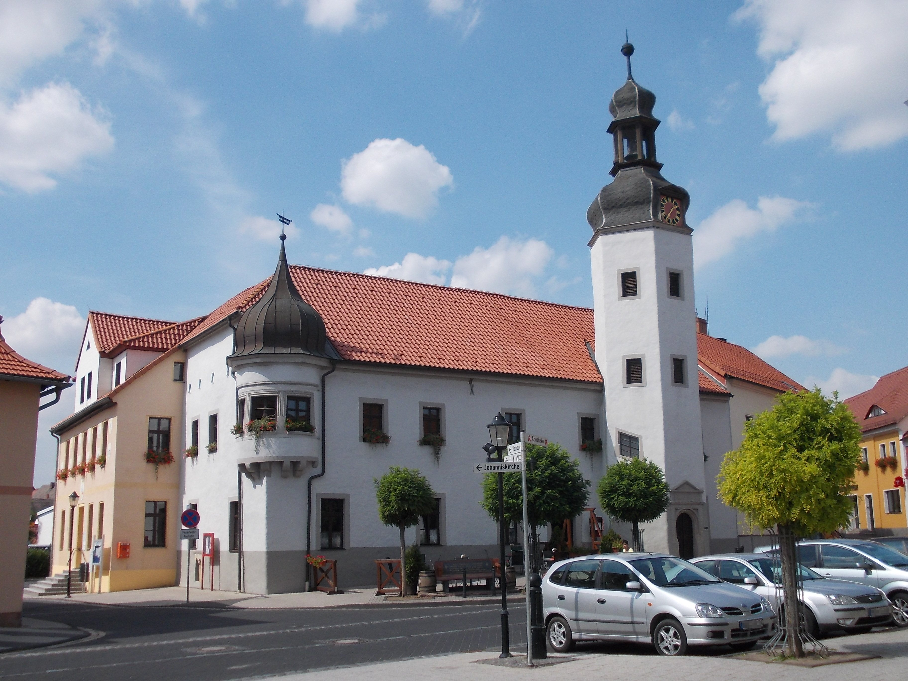 The town hall in Gerbstedt (Mansfeld-Südharz district, Saxony-Anhalt)